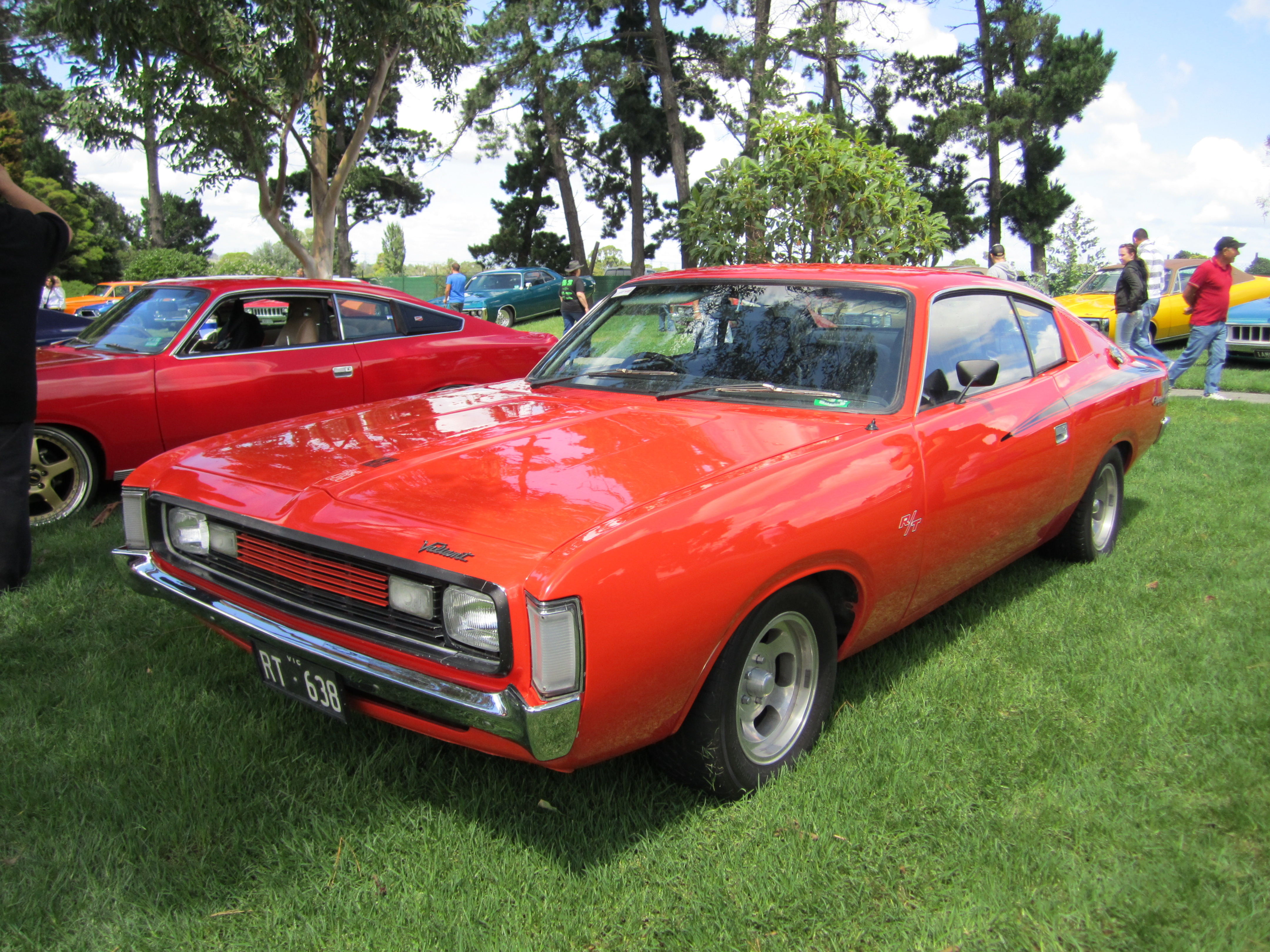 Hemi Orange Built from June 1971-May 1973 Engine; 265 Hemi 6